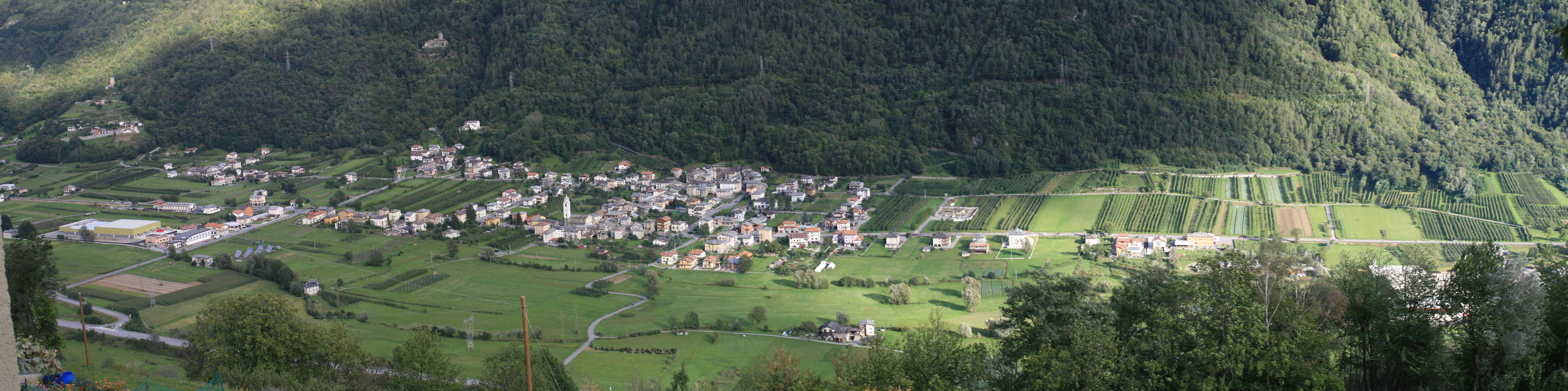 A panoramic view of the village Tovo di Sant´Agata in Valtellina (Lombardy).